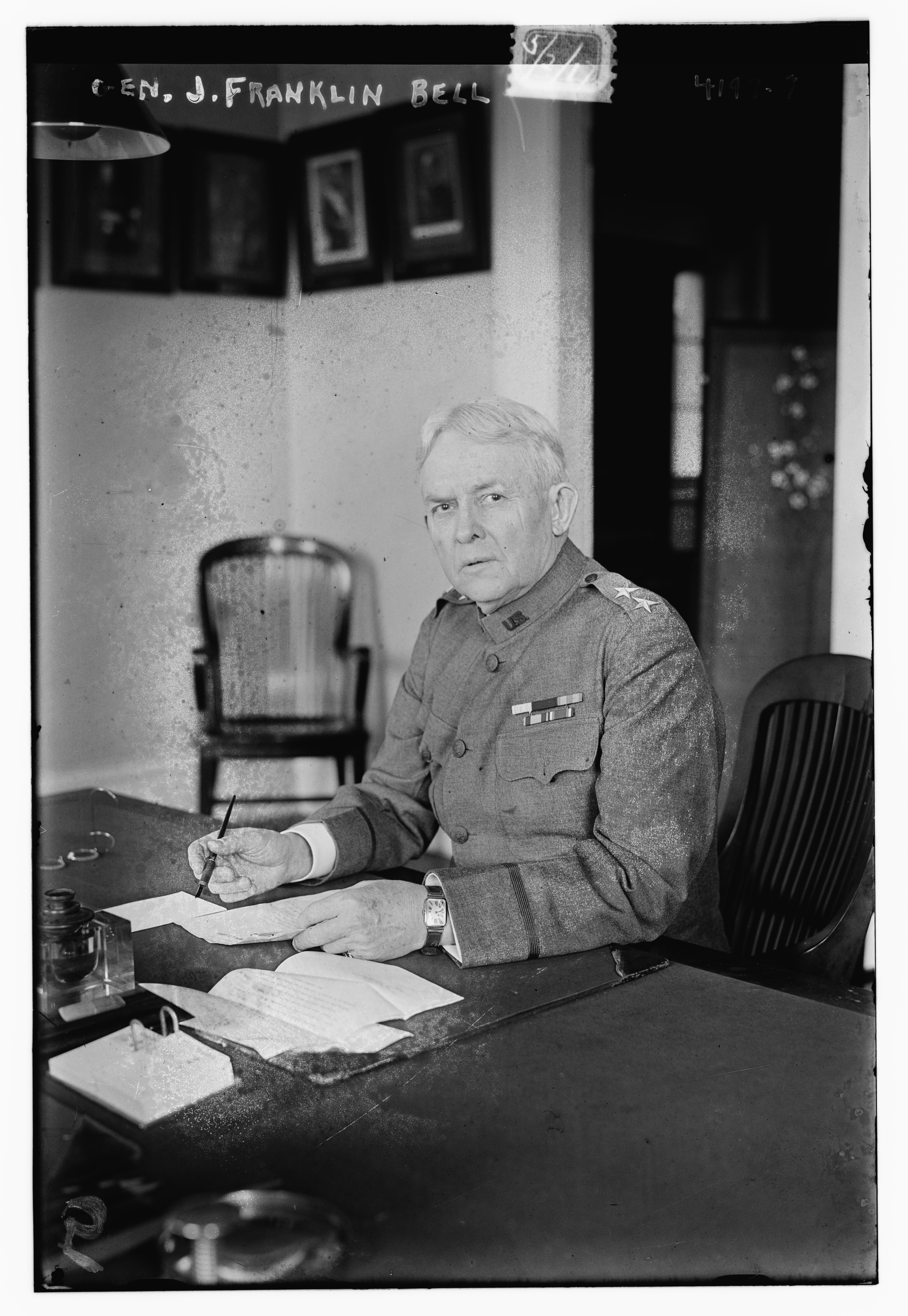 James Franklin Bell in 1917